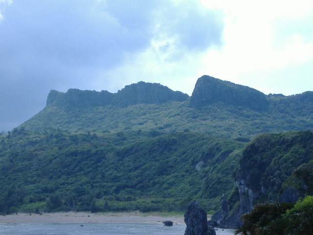 Kongosekirinzan